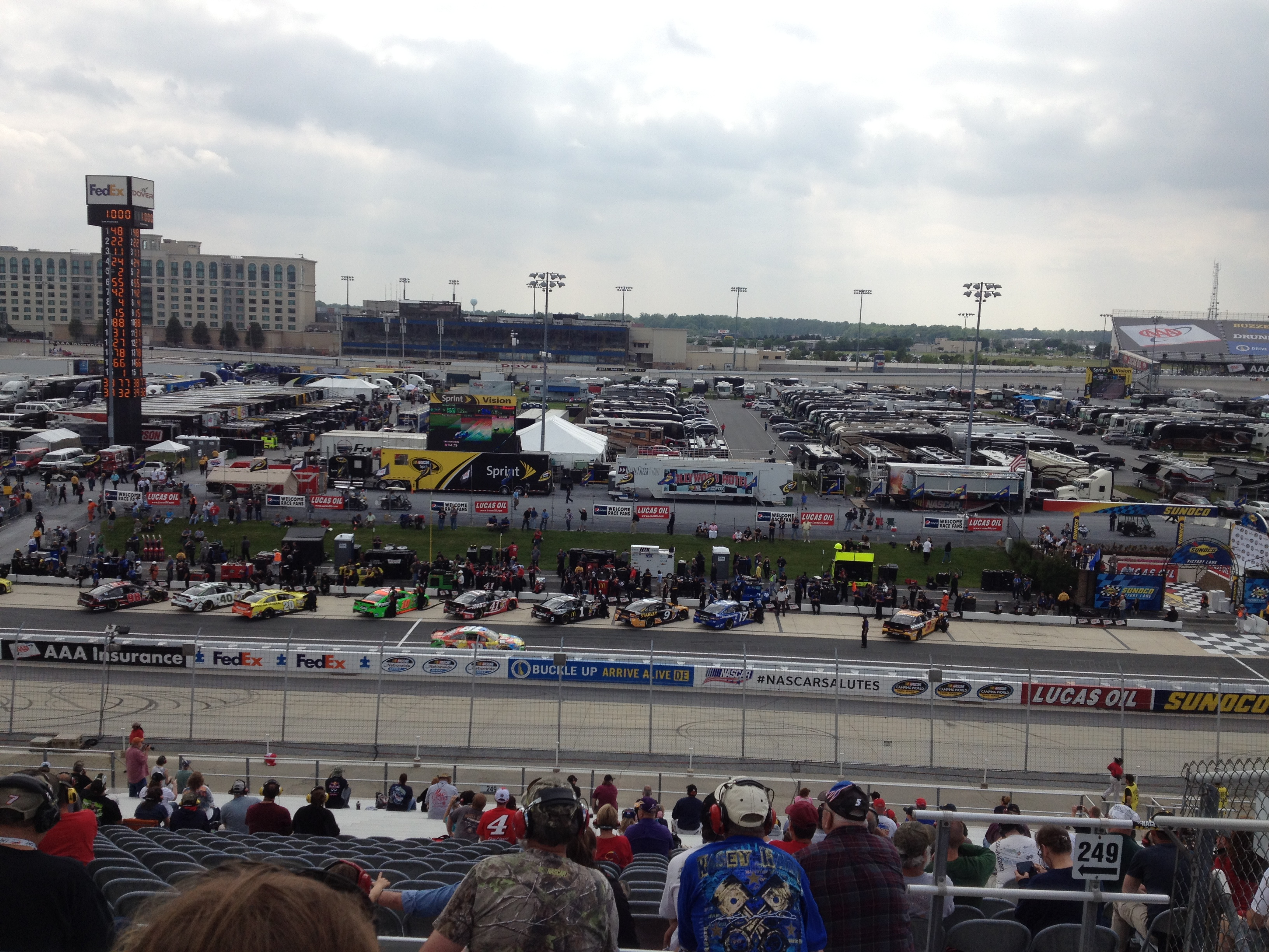 Qualifying for the 2014 FedEx 400 at Dover International Speedway viewed from the frontstretch.